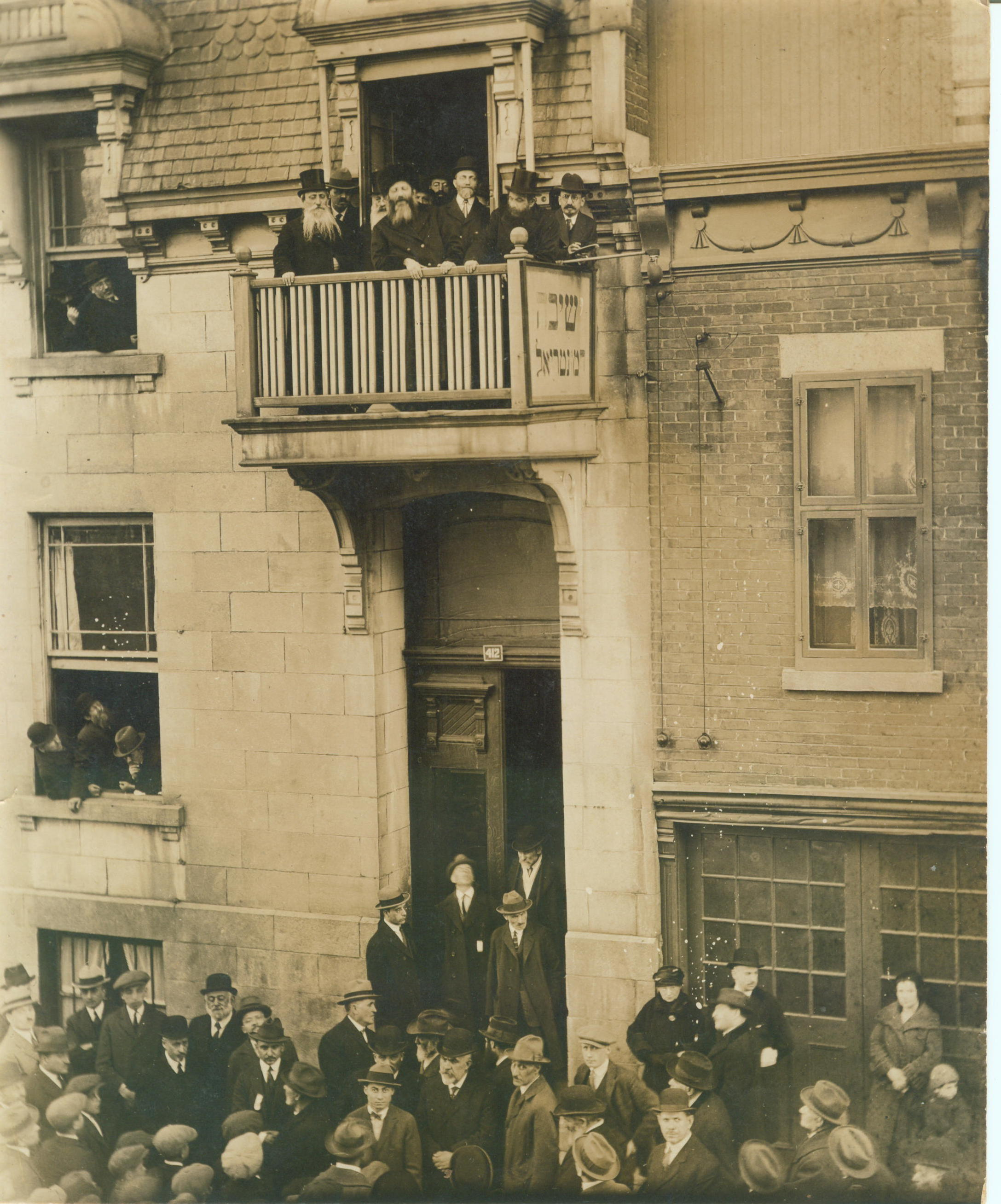 Rabbi Abraham Isaac Kook on the balcony of Montreal yeshiva, 1924